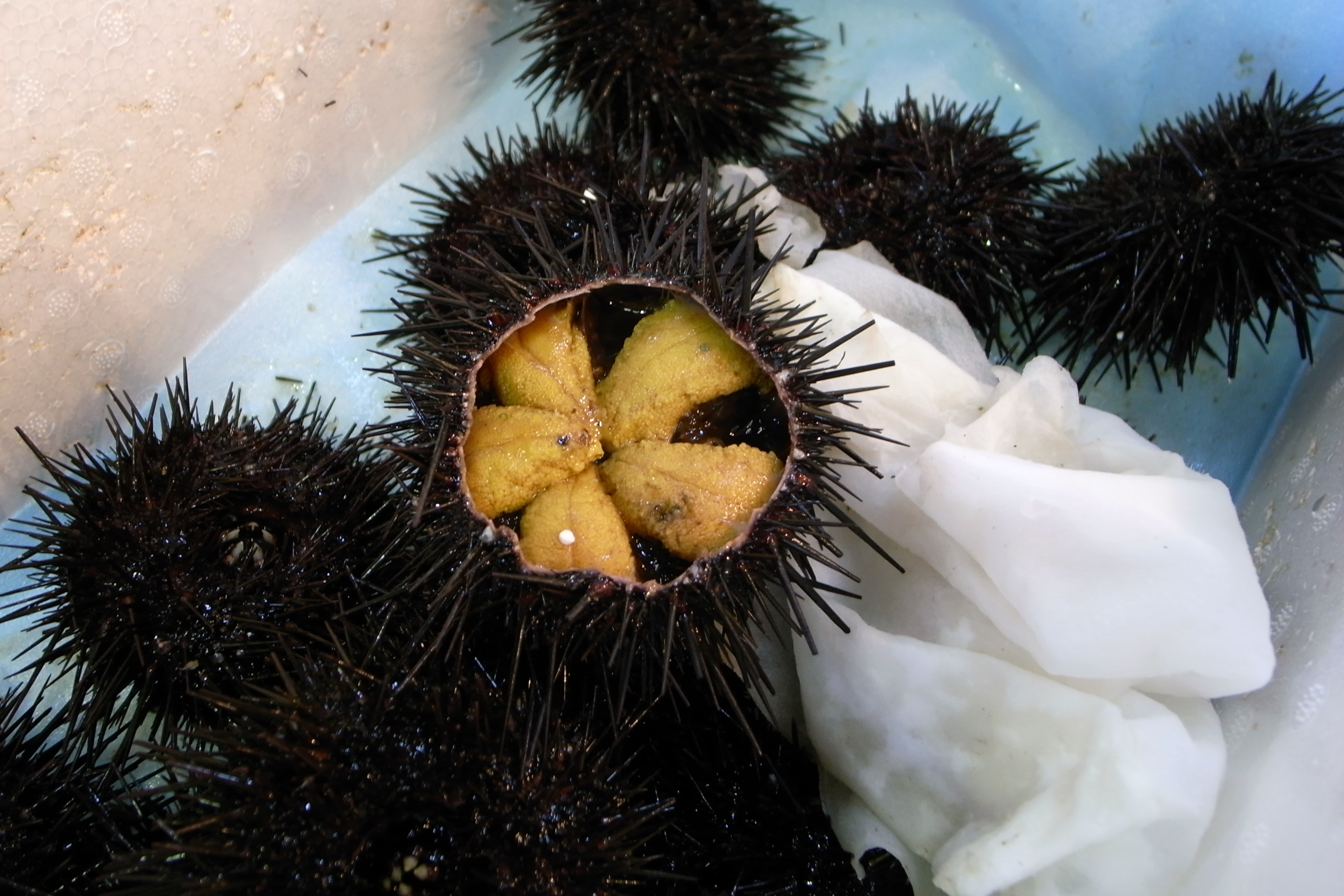 Fresh Sea Urchin